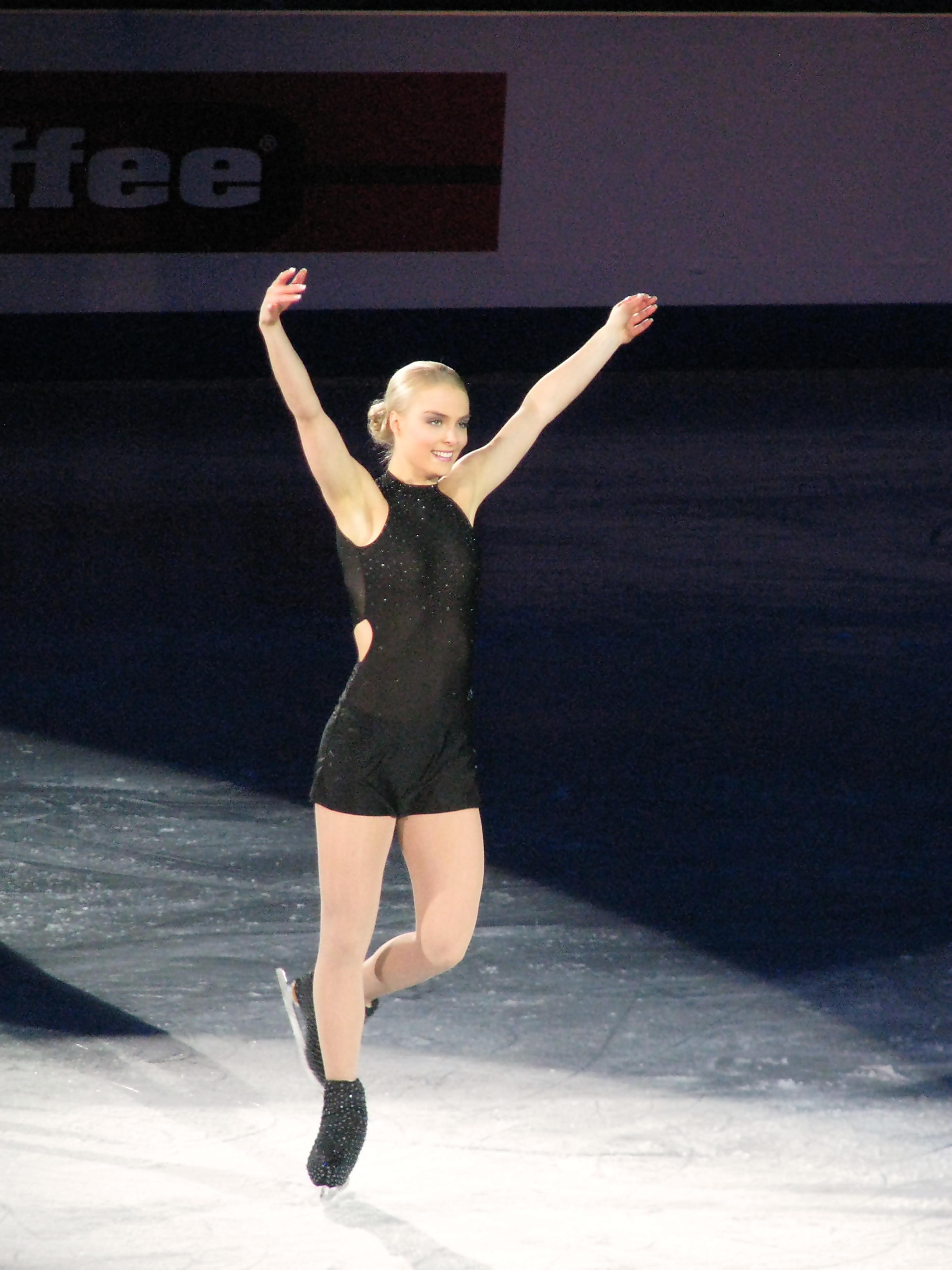 Kiira Korpi in 2010 European Figure Skating Championships (Gala)